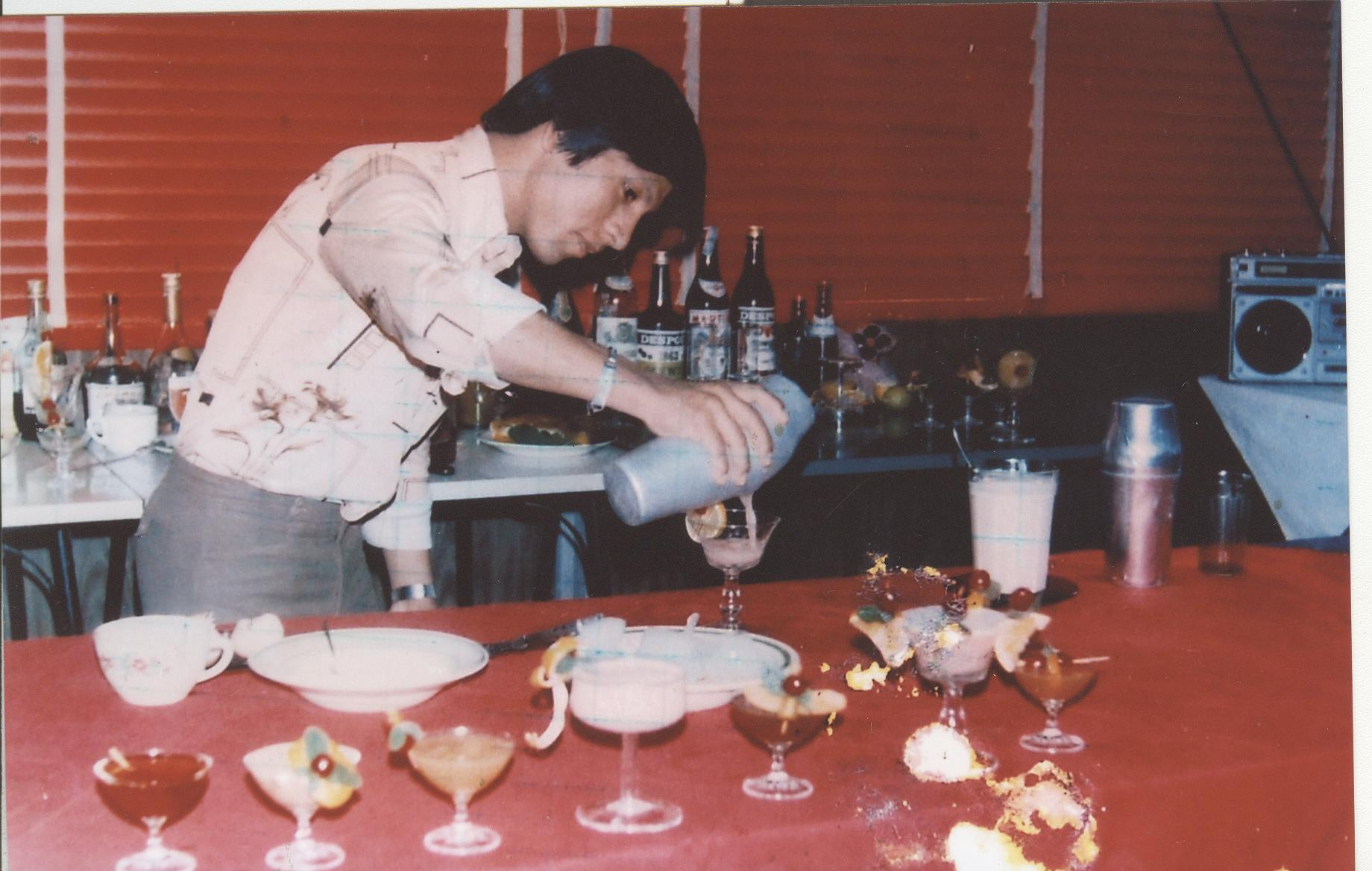 ARICA - CHILE INACAP